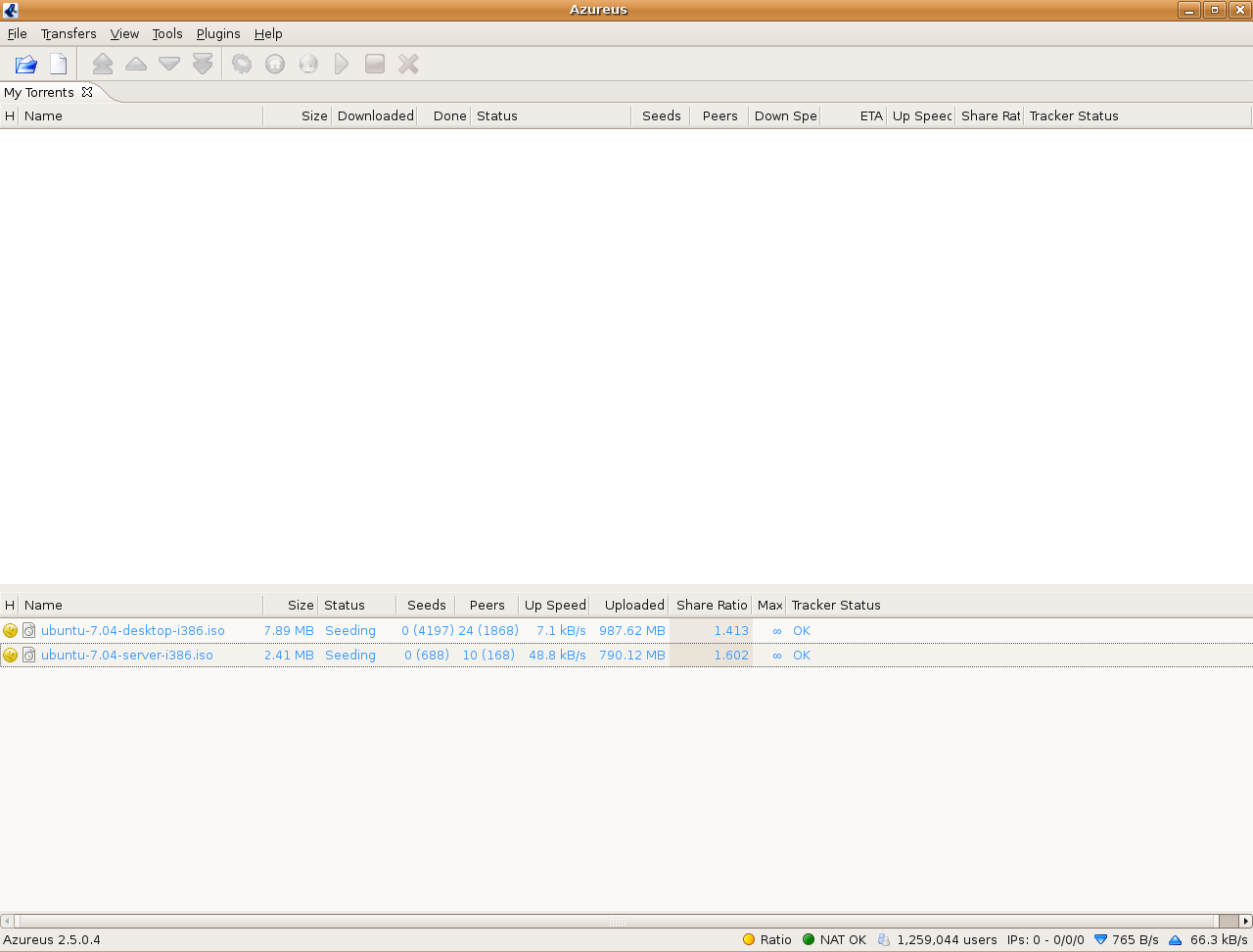 Showing Azureus 2.5.0.4 showing main screen